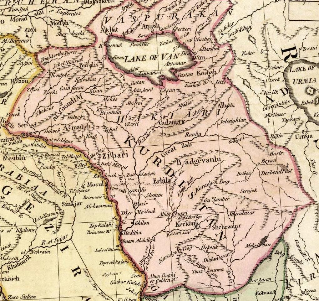 A new map of Turkey in Asia by Monsr. d'Anville, first geographer to the most Christian King with several additions. London, published by Laurie & Whittle, no. 53 Fleet Street as the Act directs, 12th May, 1794.